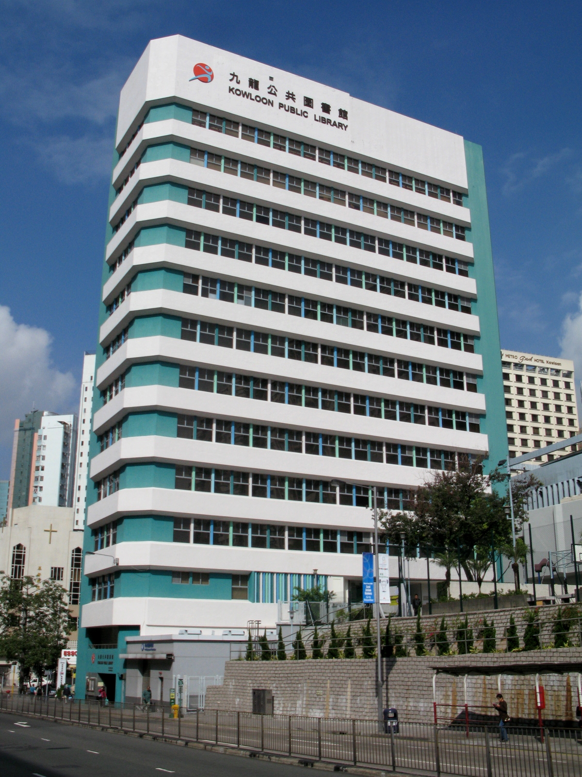 Kowloon Public Library.